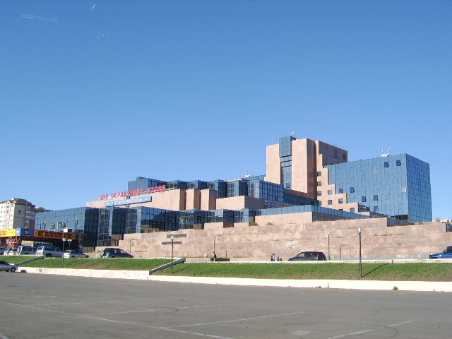 Backyard of Chinggis Khaan Hotel in Ulaanbaatar. Photographer Gantuya